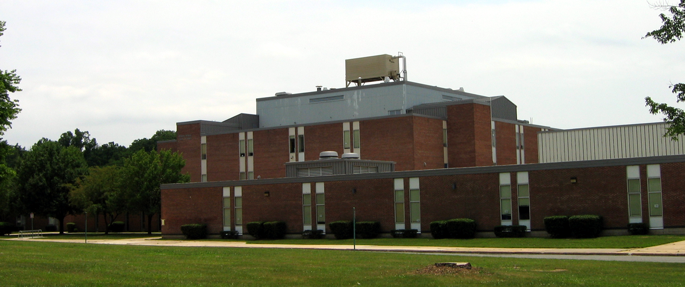 A wide view of Perry Hall High School.